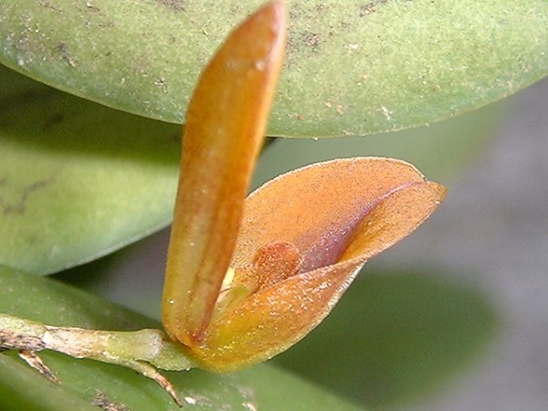 Photos by Americo Docha Neto & Dalton Holland Baptista for Orchidstudium